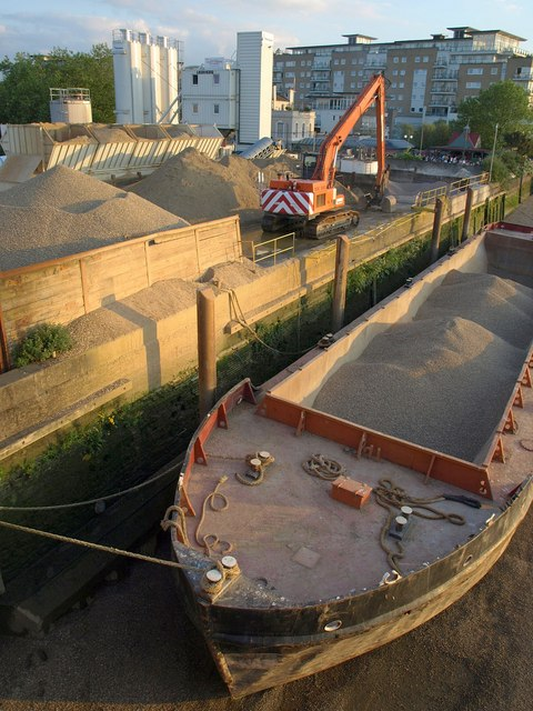 Pier Wharf, near to Wandsworth, Great Britain. Another view of sand barge, crane and gravel piles at TQ2575 : Pier Wharf, Wandsworth